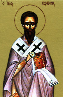 St. Simeon Barsabae (Orthodox icon)